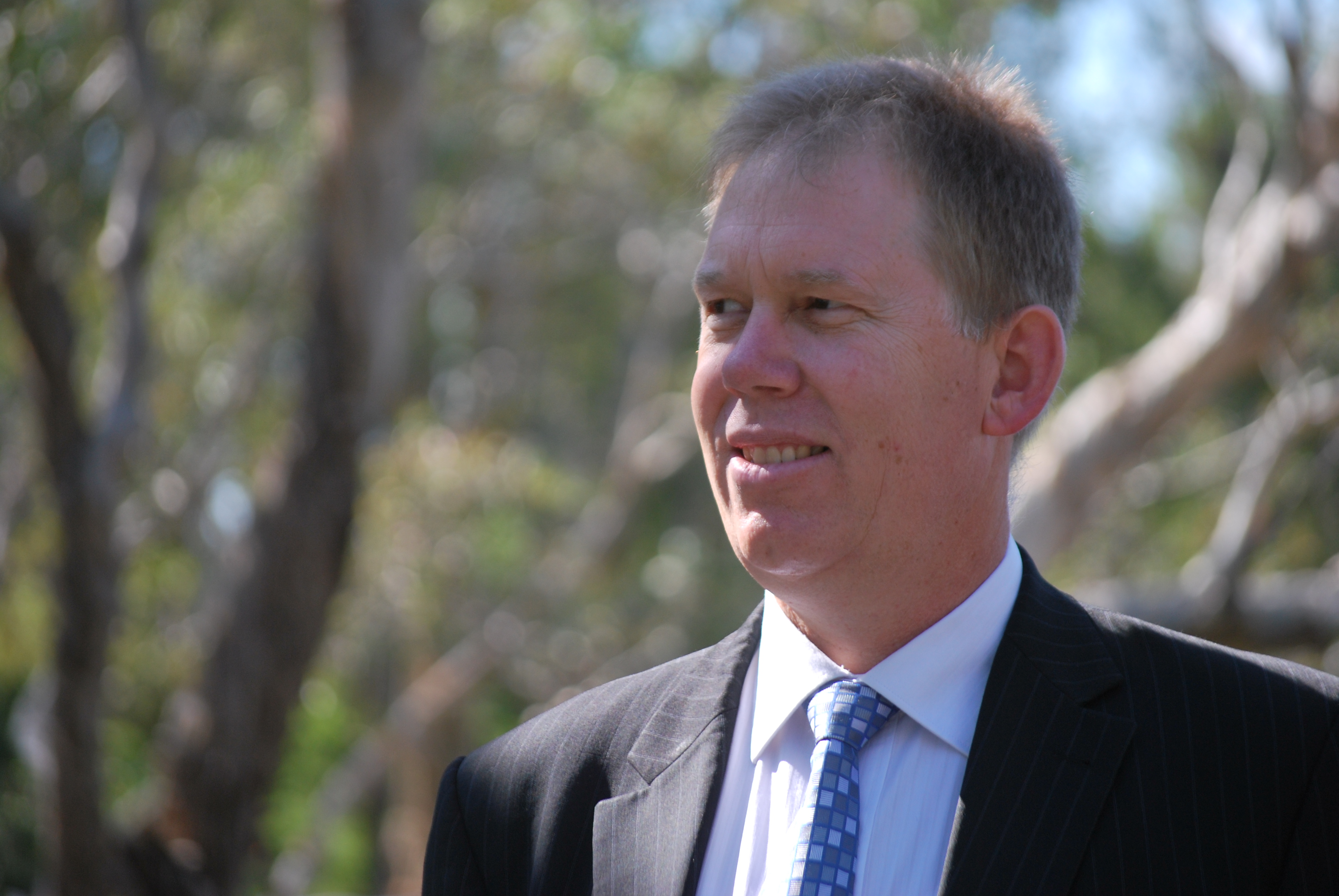 Bert van Manen MP is the Federal Member for Forde